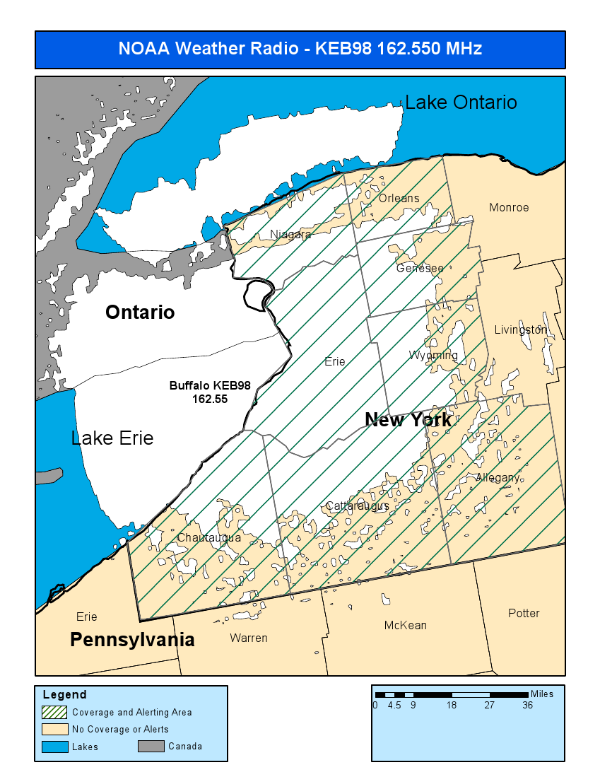 coverage map for NWS station KEB98, converted to png by the uploader.